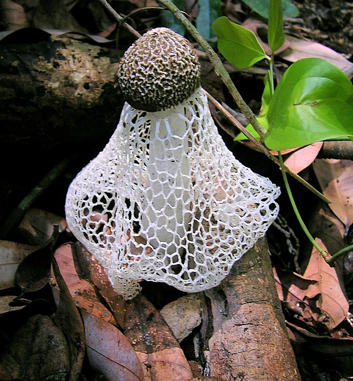 Mushroom in Wayanad (Dictyophora sp.)